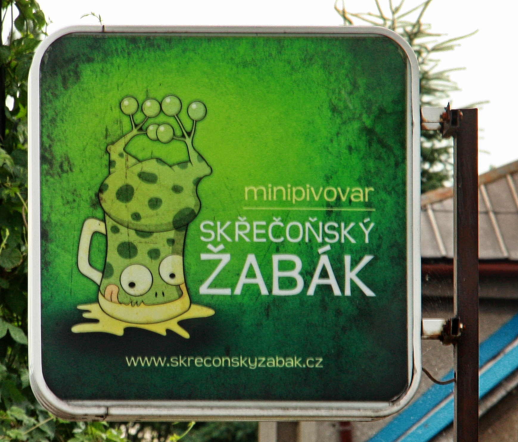 Brewery Skřečoňský žabák in Bohumín, Karviná District, Moravian-Silesian Region, Czech Republic